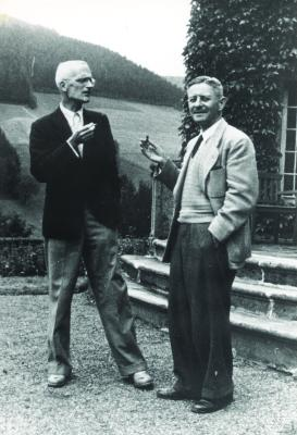 Mathematicians Heinz Hopf (right) and Hellmuth Kneser (left) in Oberwolfach.